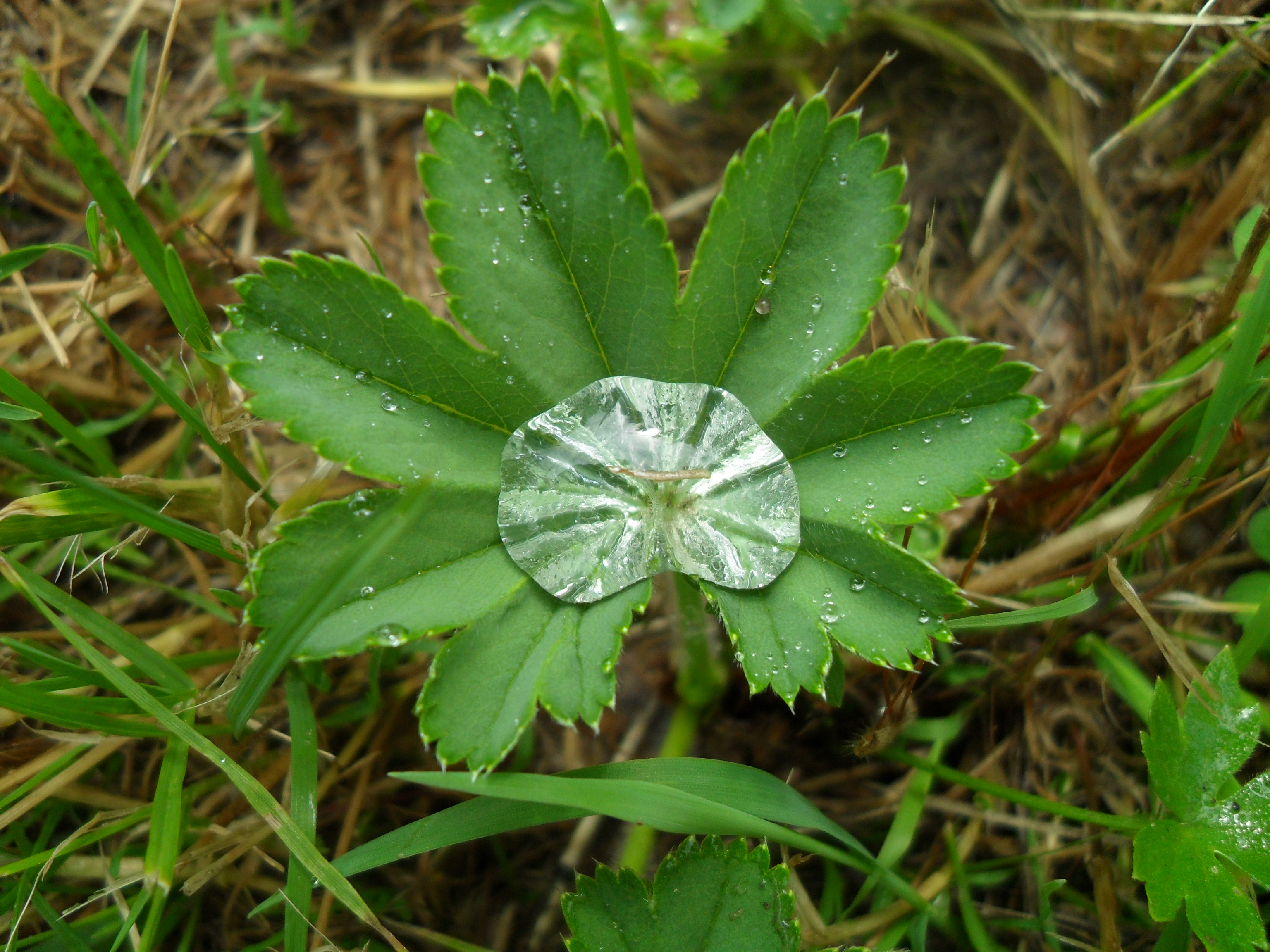 Detailansicht eines Frauenmantels (Alchemilla vulgaris).